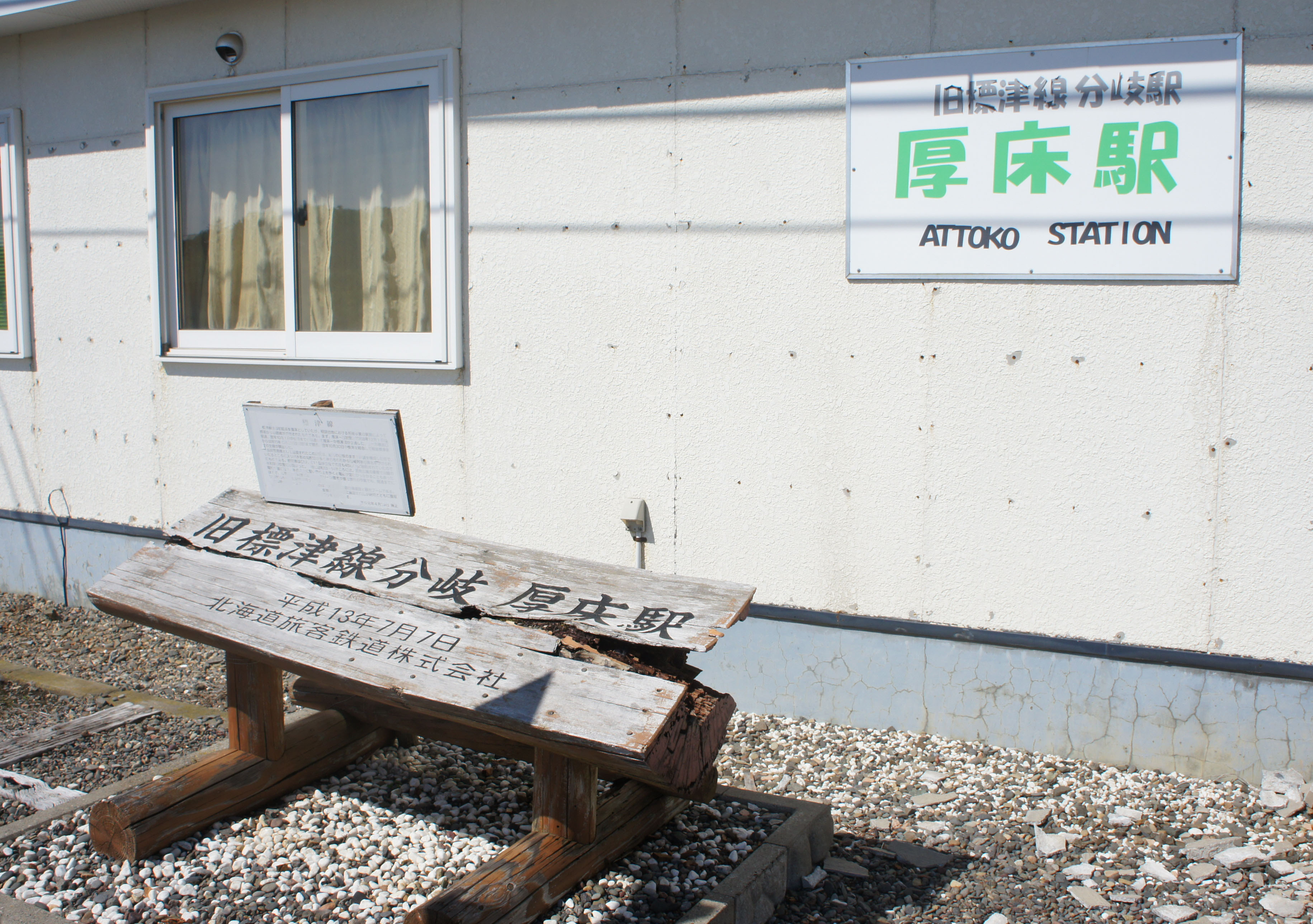 Shibetsu-Line Memorial sign. It takes at Attoko Station.